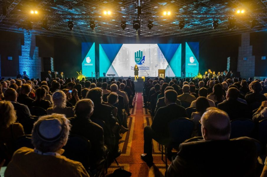 Group picture of the attendees during the opening gala